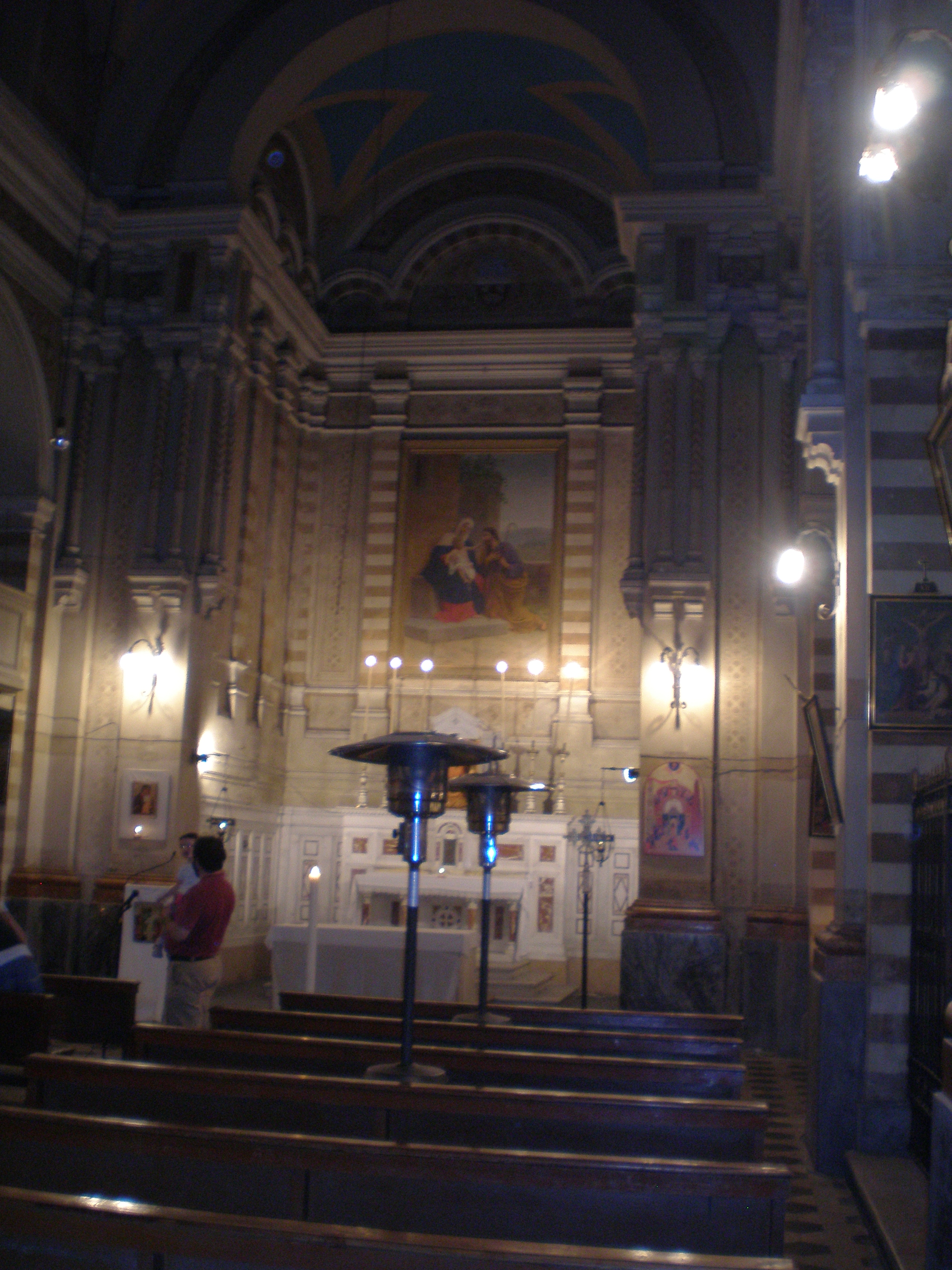 Interior of the church of San Giacomo in Parma